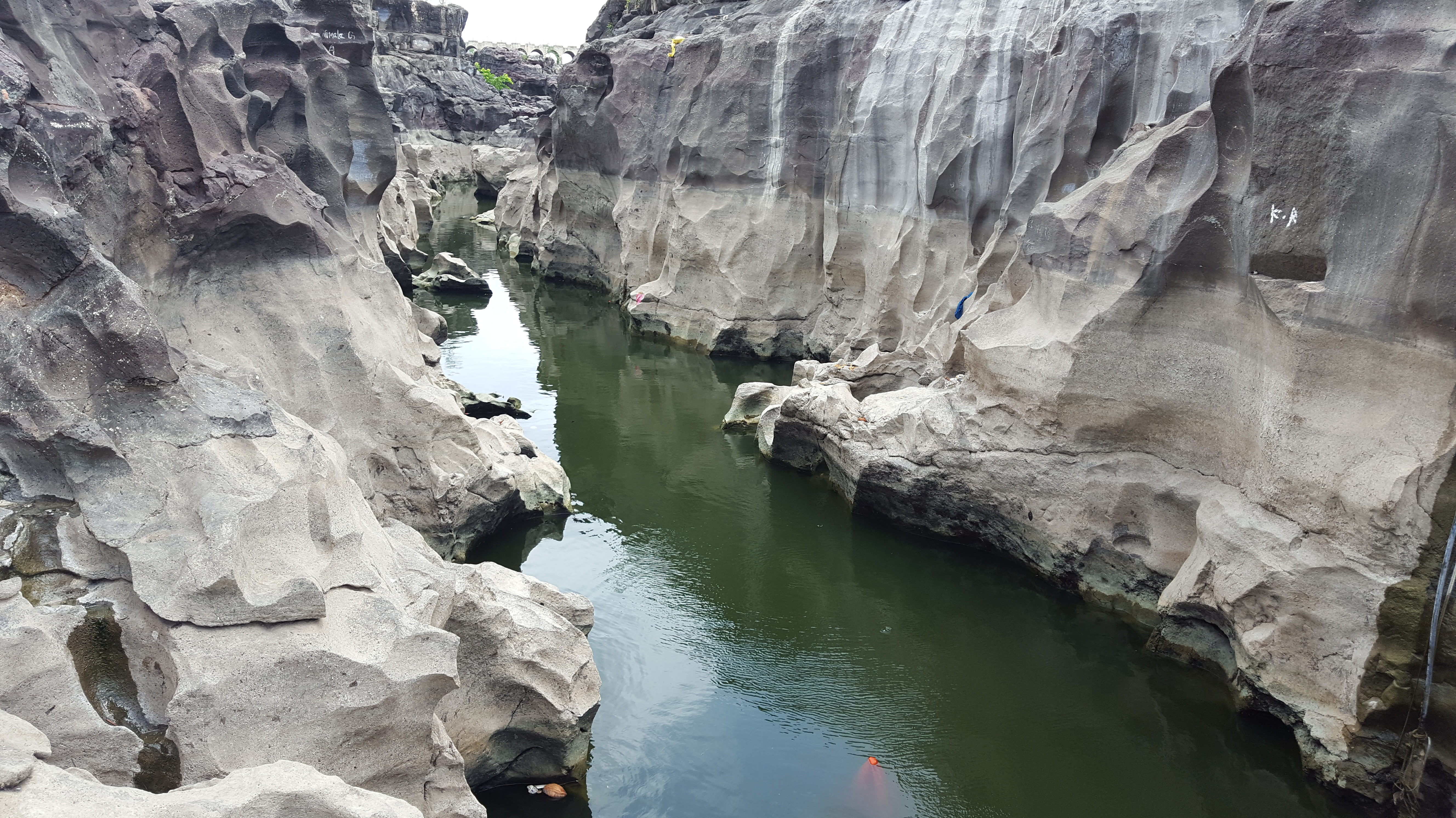 image taken at ranjan kud at Nigoj area. This is a naturally created pots (kund in marathi) because of water speed it also share the 2 taluka's border Parner and Shirur ..it is in Maharsahtra and also the temple of malganga devi is there good to visit